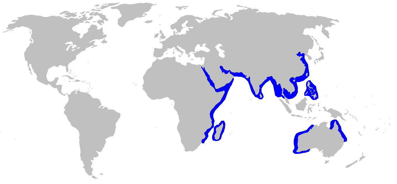 Distribution map for Hemipristis elongatus